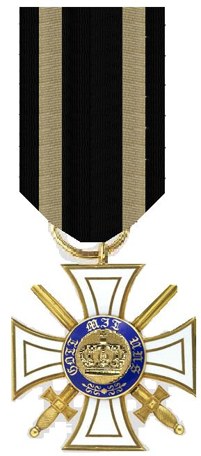 Order of the Crown Prussia